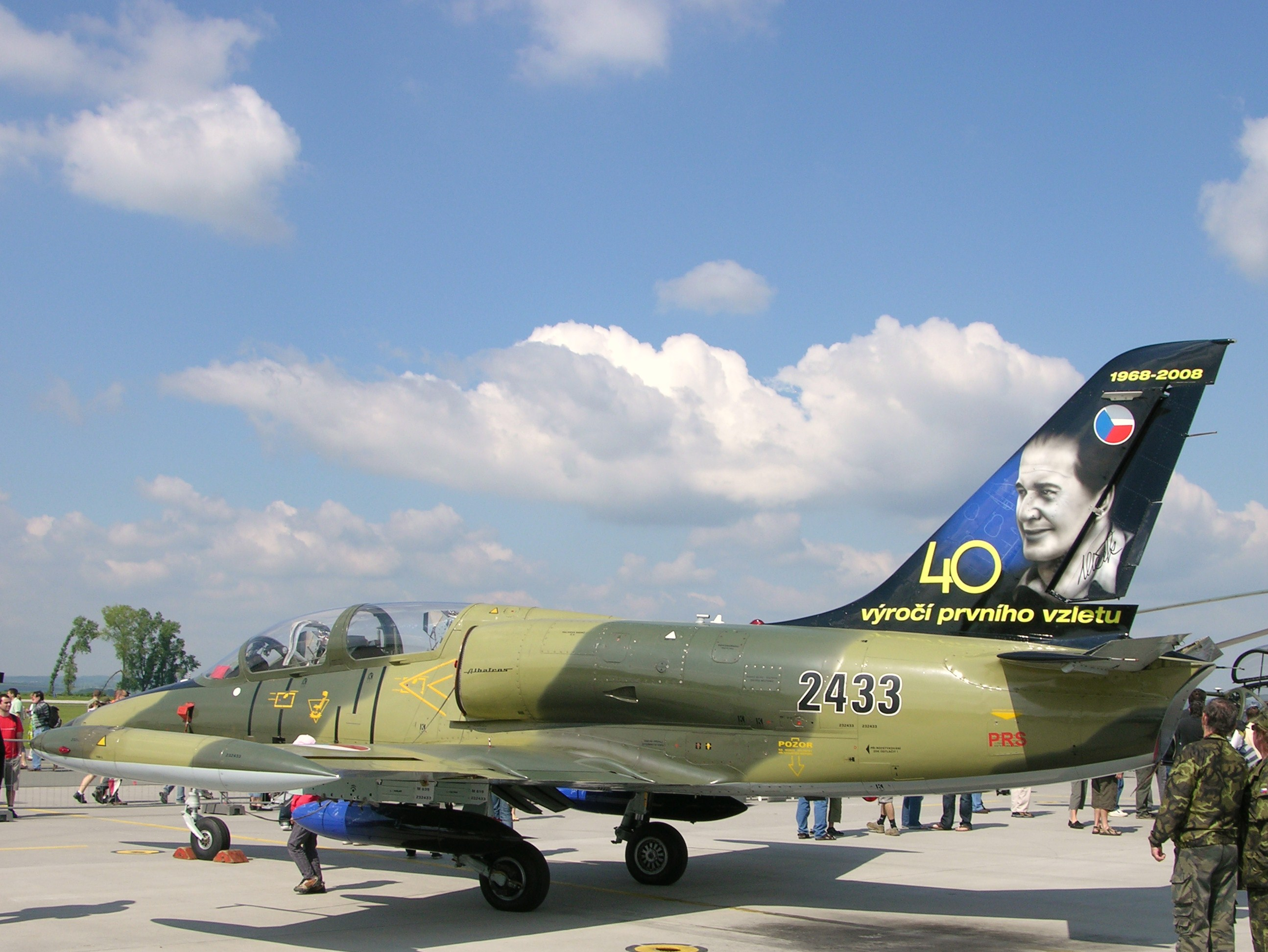 Photographed from the rear, which because of the barriers was the only way to go